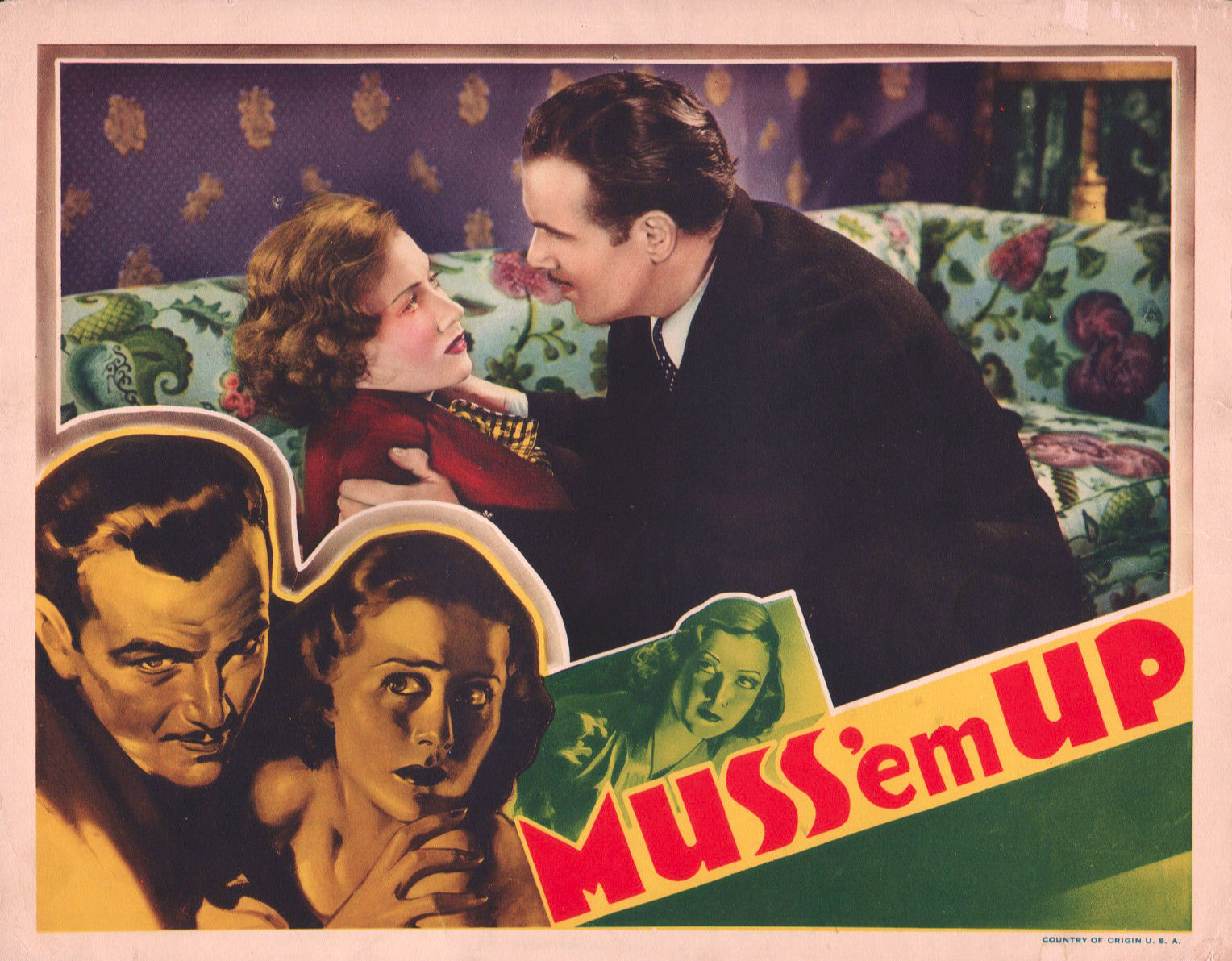 Lobby card for the 1936 film Muss 'Em Up. The item has no copyright marks on it as can be seen at links and original upload. At bottom right is Country of origin USA.